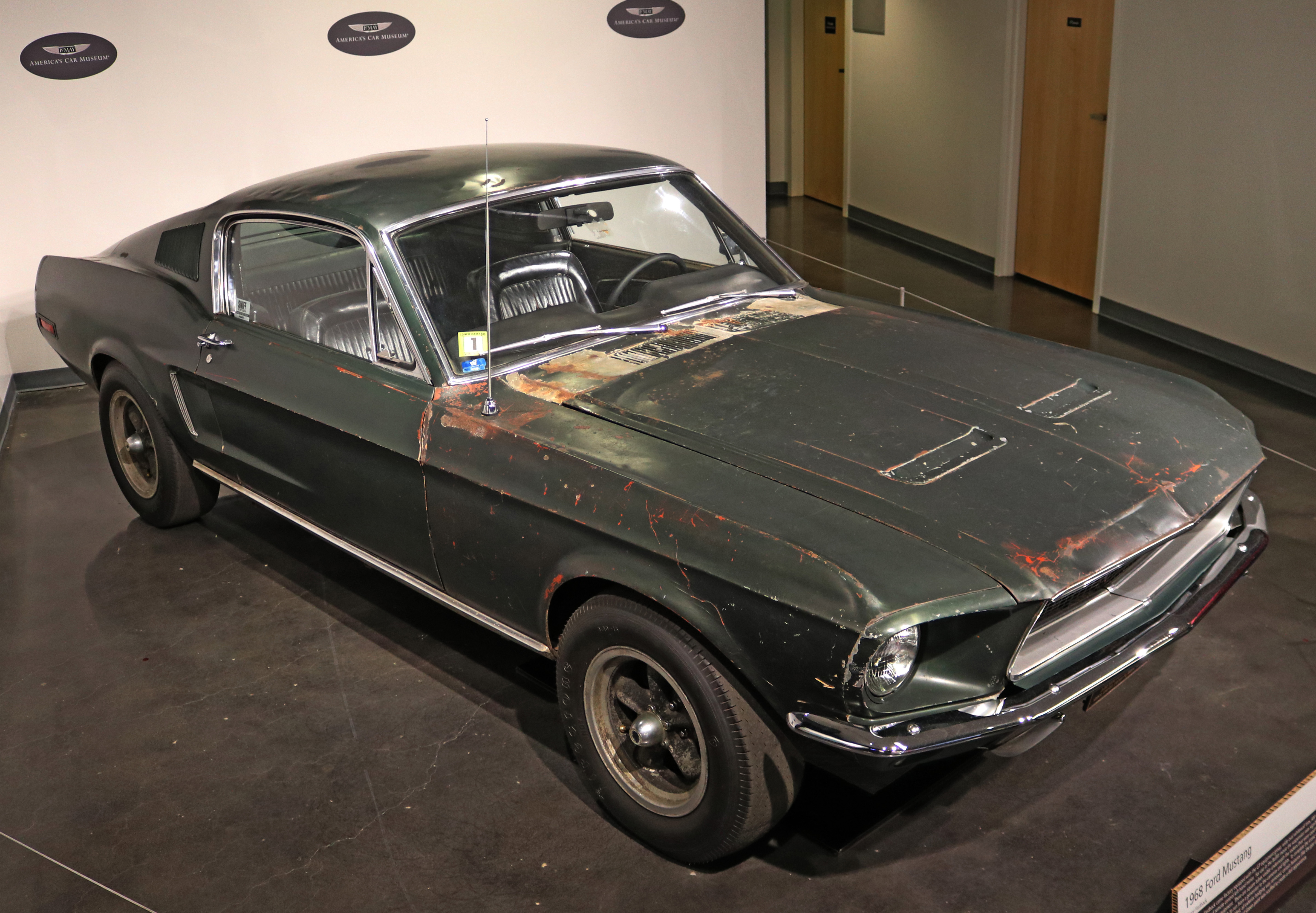 The Bullitt Mustang on display at the LeMay Car Museum on April 13, 2019.